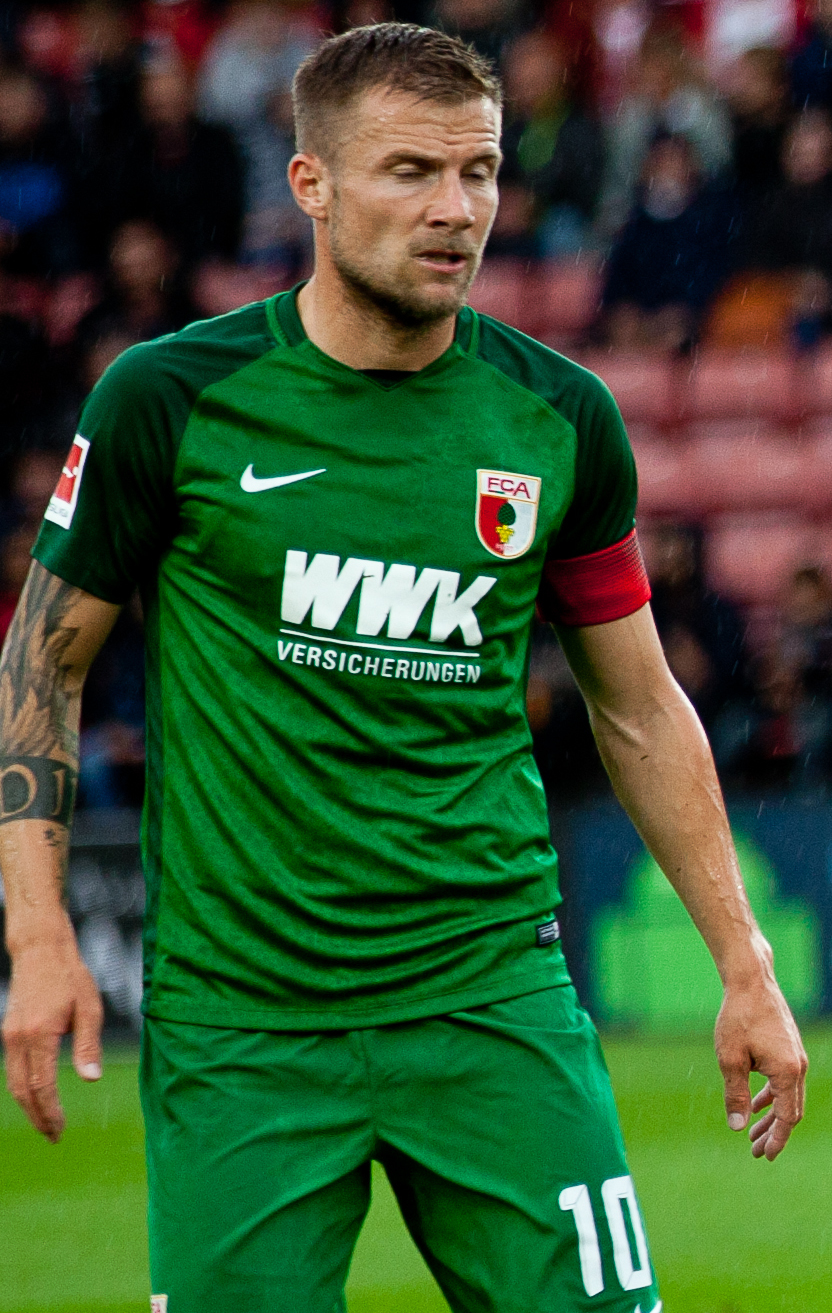 Pre-season friendly Wednesday 2 August 2017 Image by Steve Hogg